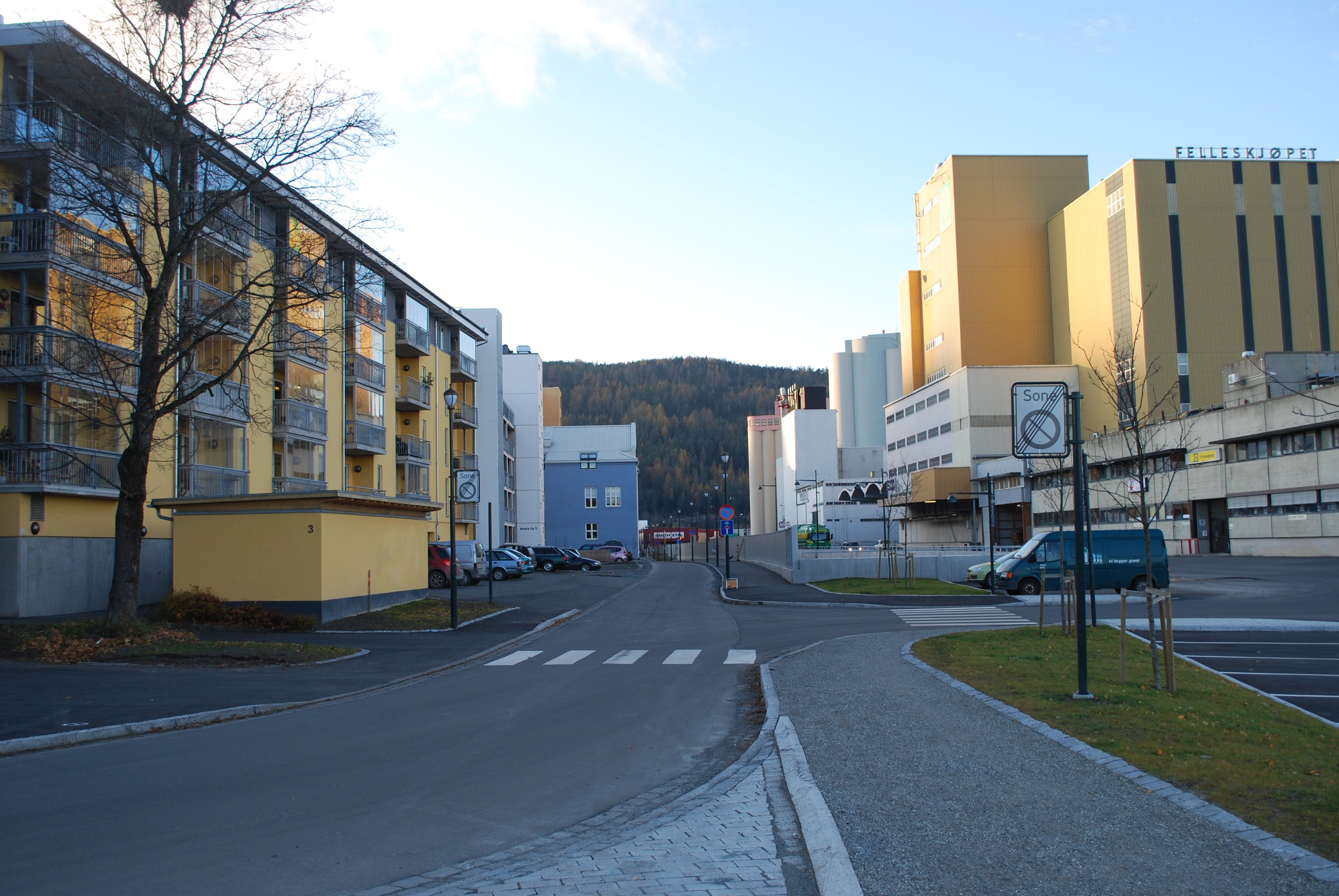 Nedre Ila in Ila, Trondheim, Norway.